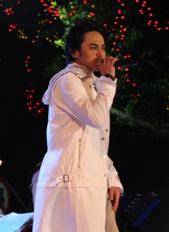 Billie Zheng at New Year's Eve in Penghu